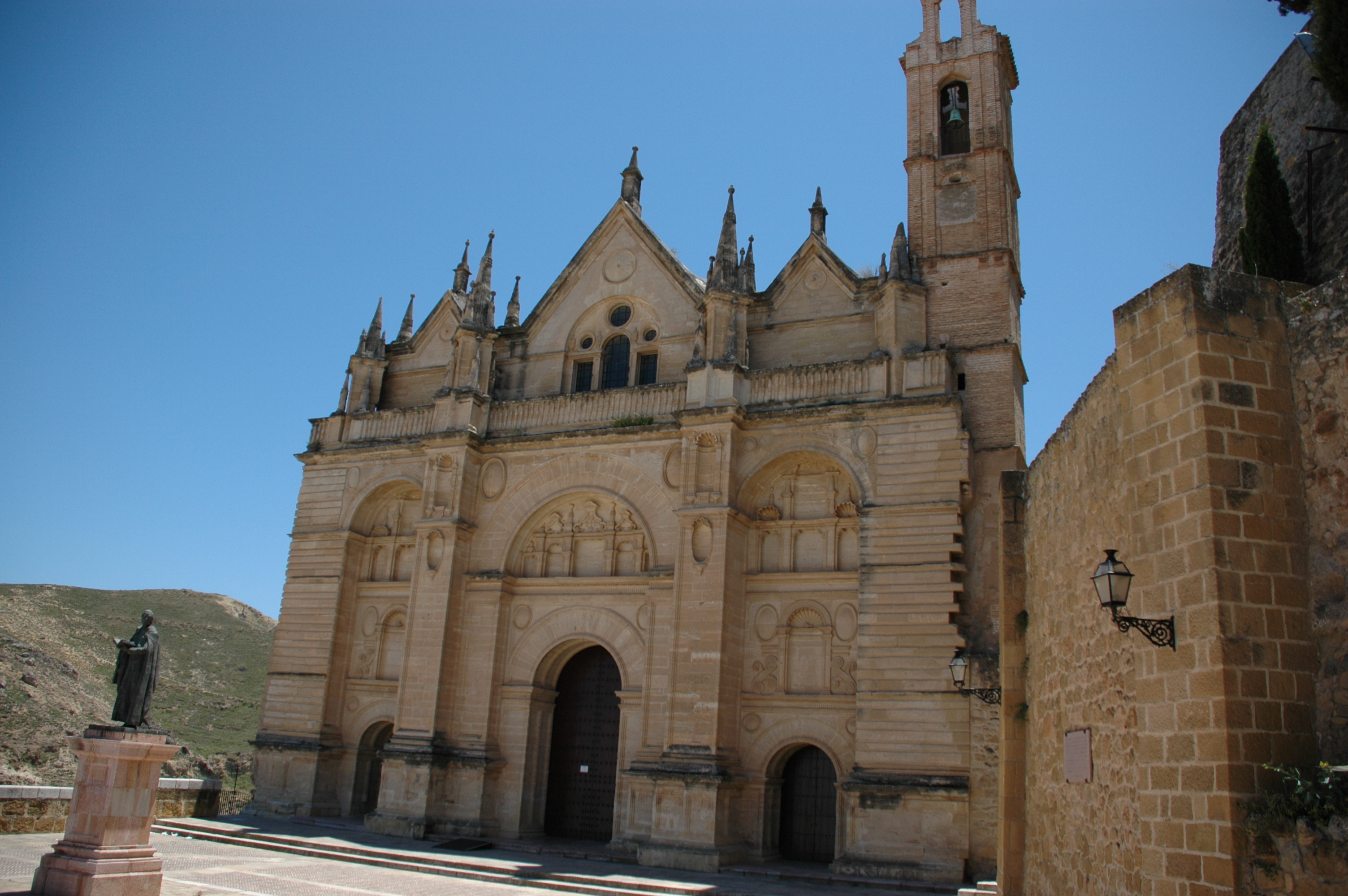 Real Colegiata de Santa María la Mayor, Antequera, Spain.